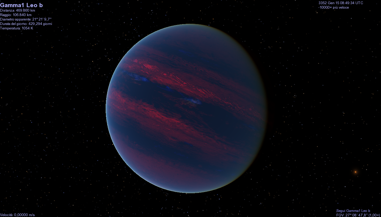 Planet of Gamma1 Leonis (min mass ~8.7 MJ)